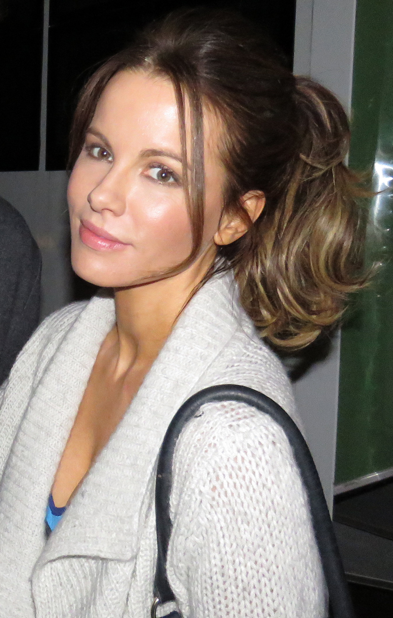 The gorgeous star of Underworld, Serendipity, Whiteout, Van Helsing.